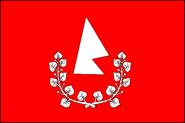 Municipal flag of Česká village, Brno-Country District, Czech Republic.